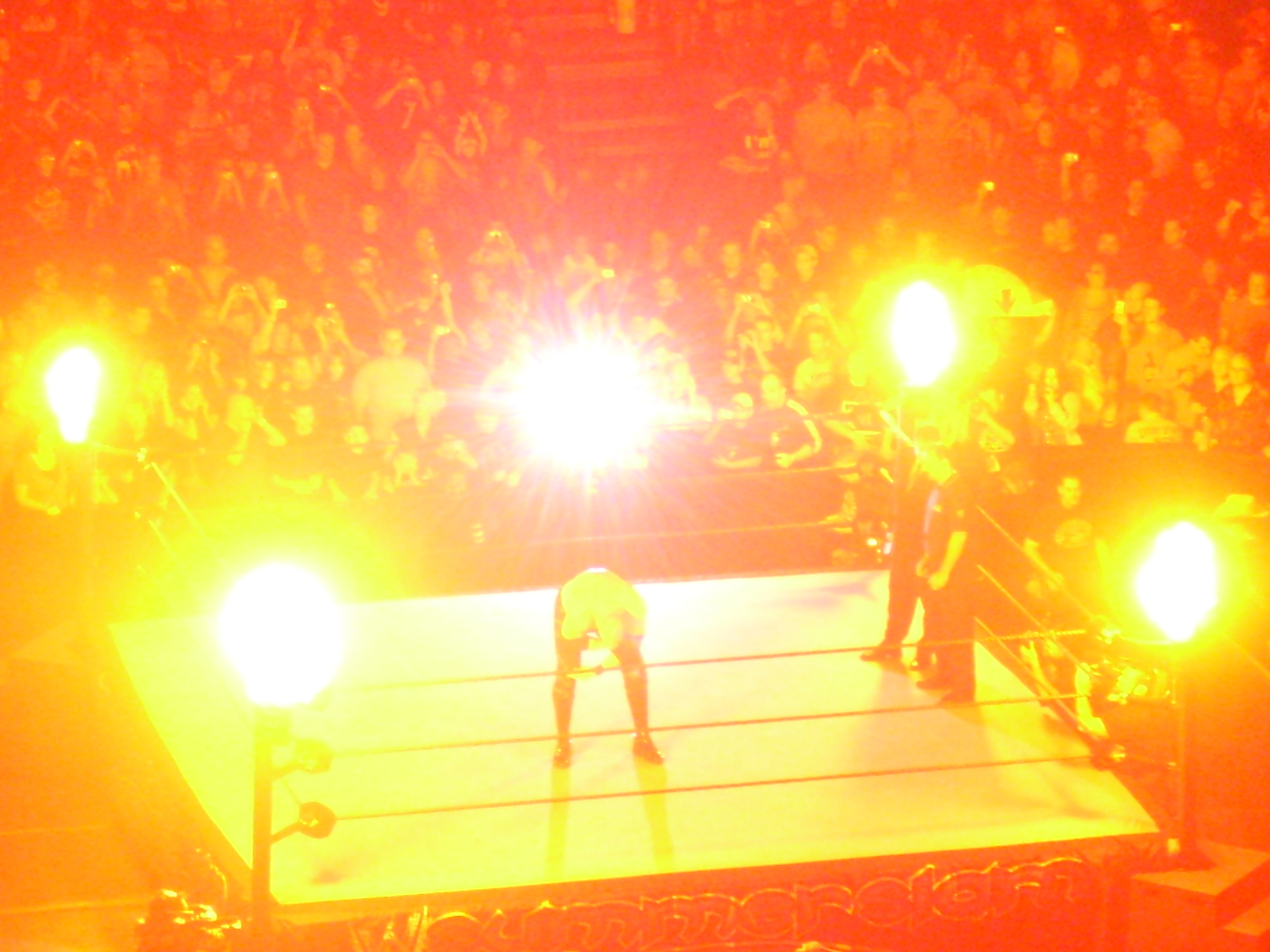 Kane performing his signature entrance routine at the en:2007 SummerSlam on August 26 at the Continental Airlines Arena in East Rutherford, New Jersey.